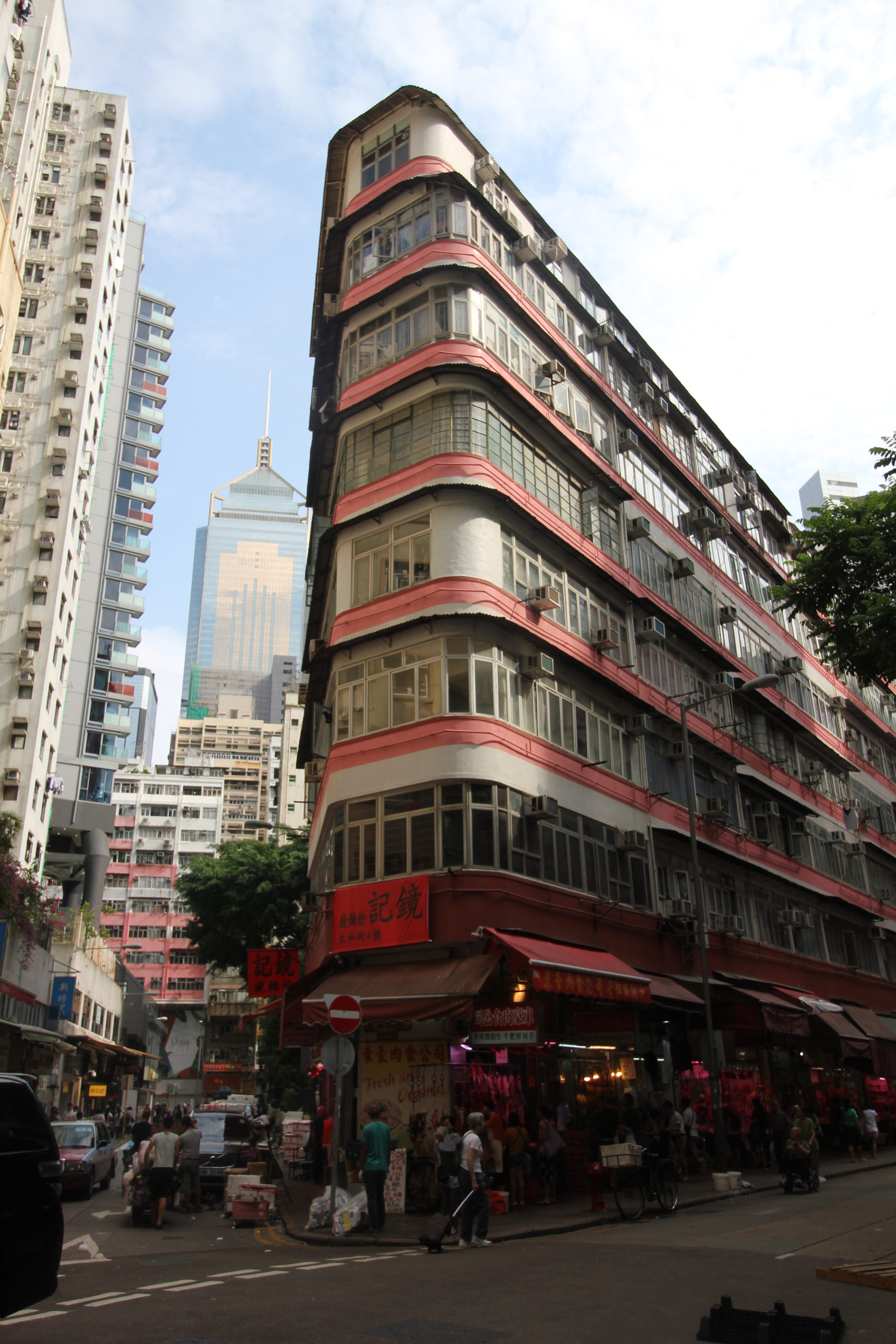 The Wanchai Building is a composite building located at the intersection of Wan Chai Road and Tai Wo Street.